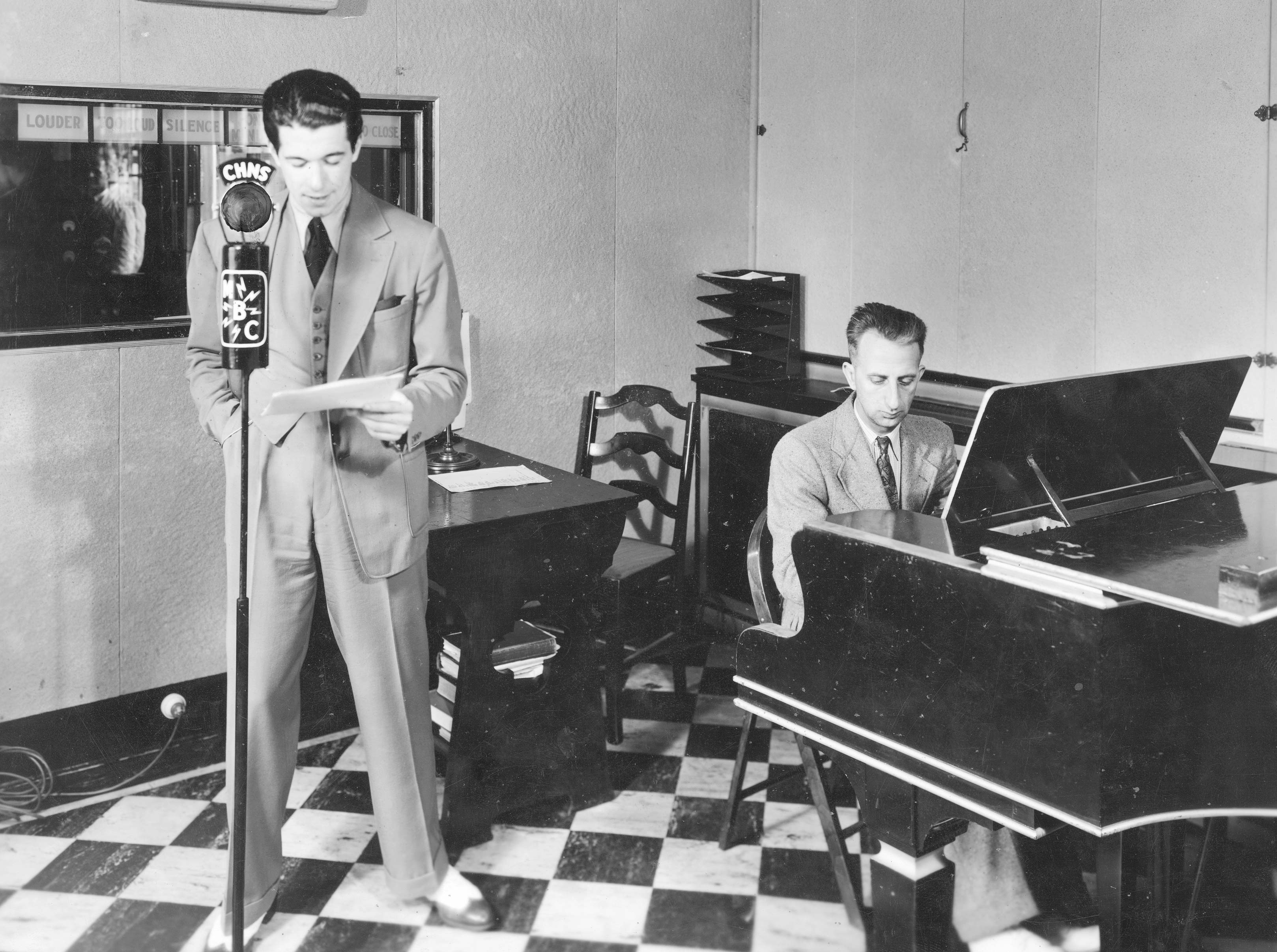 Canadian Actor Austin Willis and Dick Fry Perform from the CHNS Studio, Lord Nelson Hotel, Halifax, Nova Scotia, Canada, 1928. Maritime Broadcasting Limited began broadcasting as Radio Station CHNS in 1926 from the Carleton Hotel, corner of Argyle and Prince, with a 100-watt transmitter. Two years later, the station moved to the penthouse of the Lord Nelson Hotel, this time with a 500-watt transmitter.